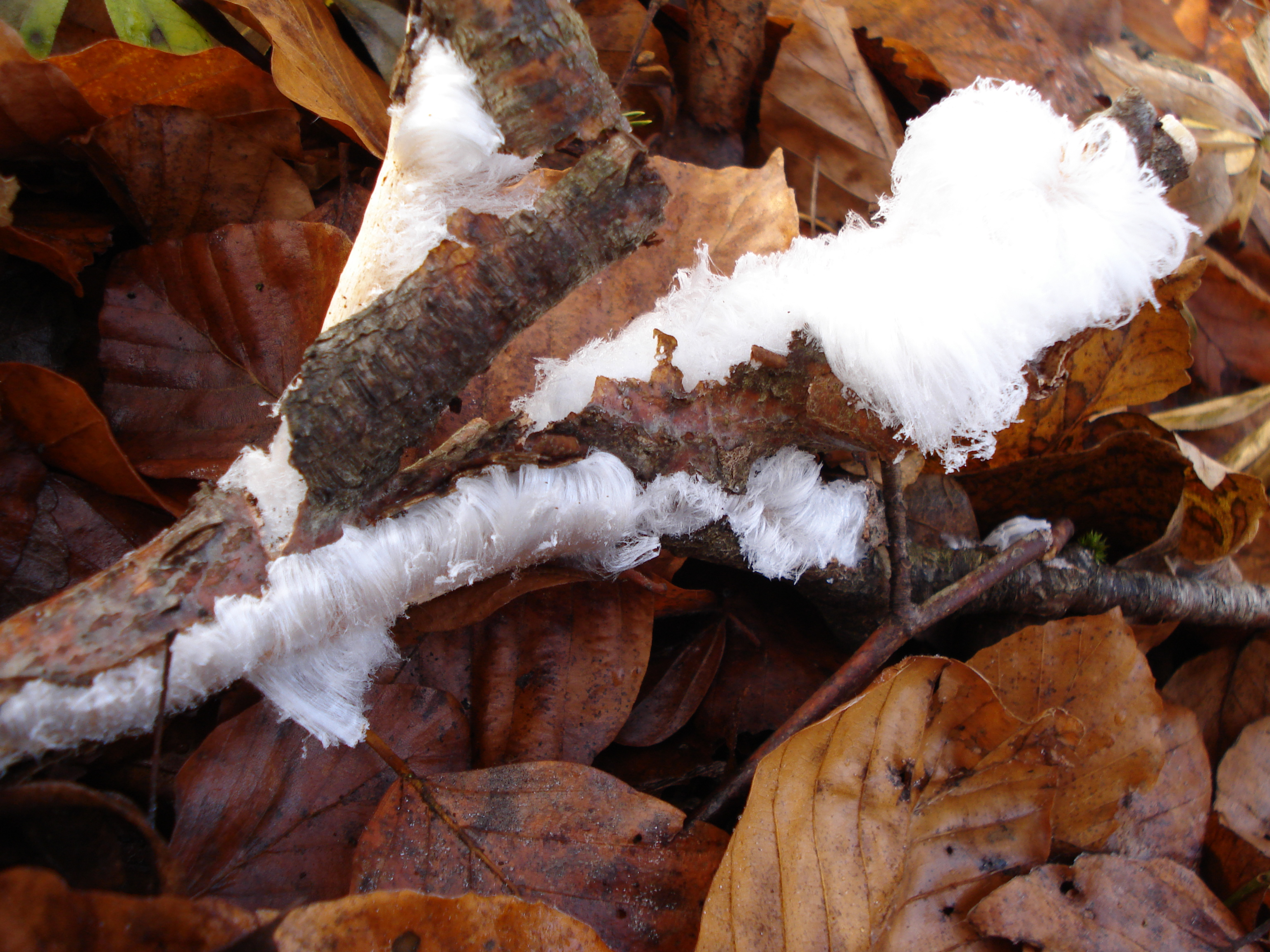 Hair ice ("Frost beard") on a piece of dead wood.